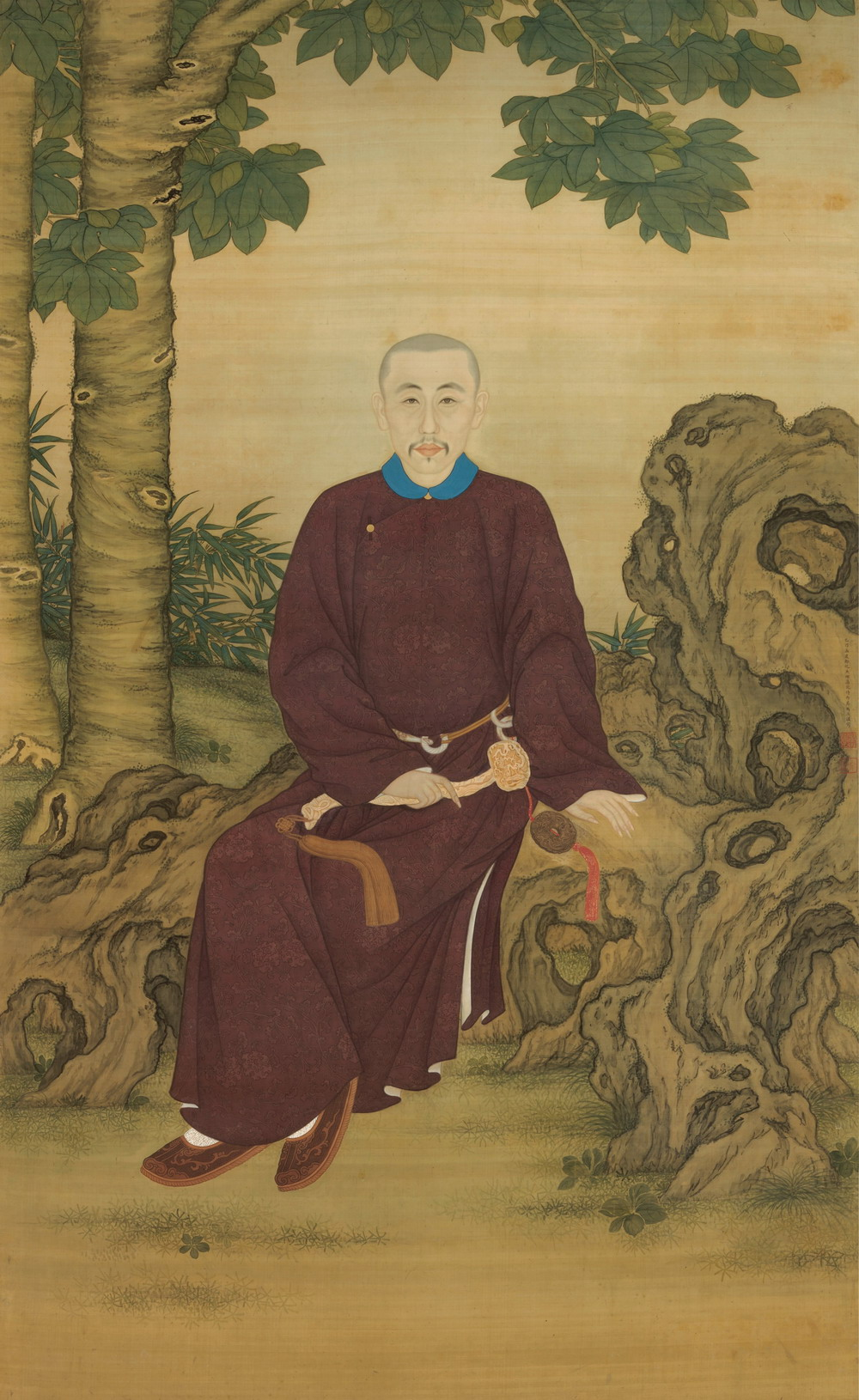 Yinli, Prince Guo